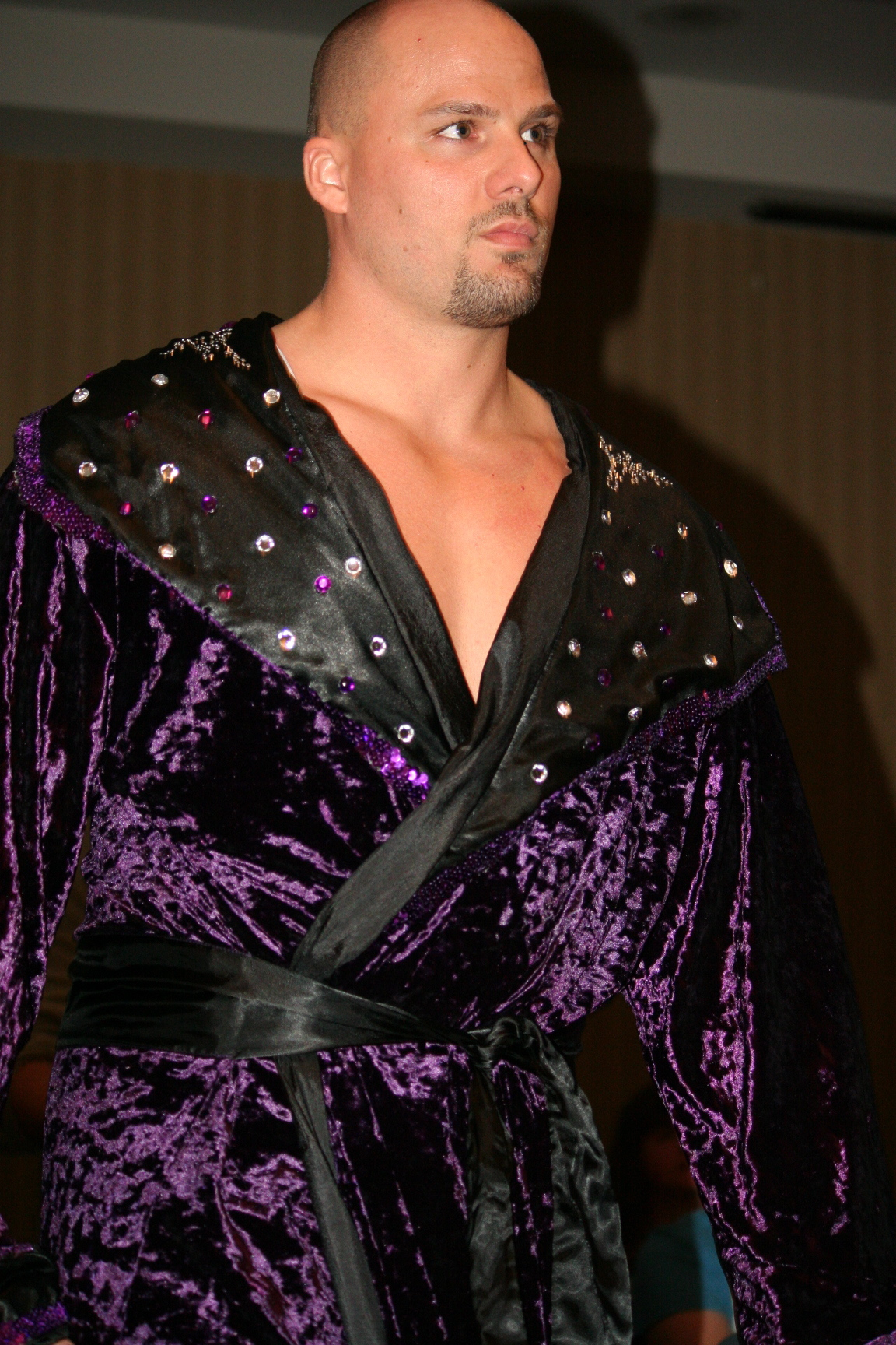 Professional wrestler Adam Pearce making his way to the ring on March 14, 2010 at an NWA show. He went on to win the NWA World Heavyweight Championship.